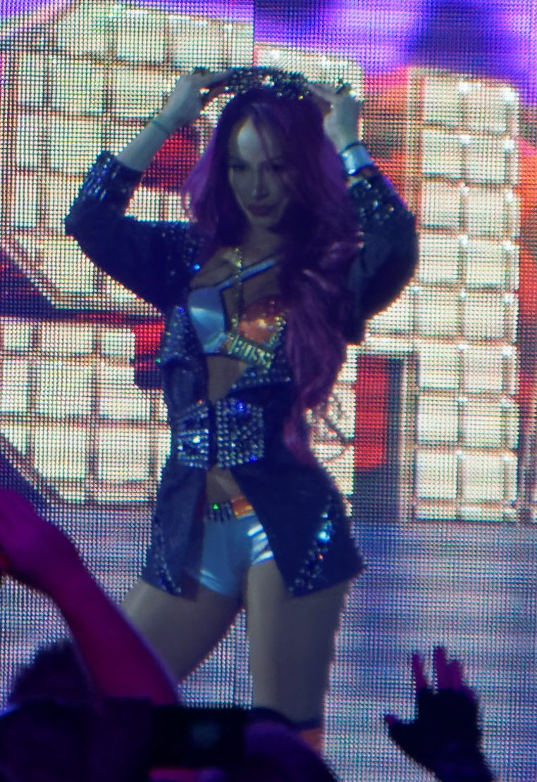 WWE Live returns to London this September Join Roman Reigns, Seth Rollins and more WWE Superstars at the 02 Arena for a one-night-only WWE Live in London on Wednesday, 7 Sept. Charlotte (c) def. (pin) Sasha Banks For : WWE Raw Women's Title